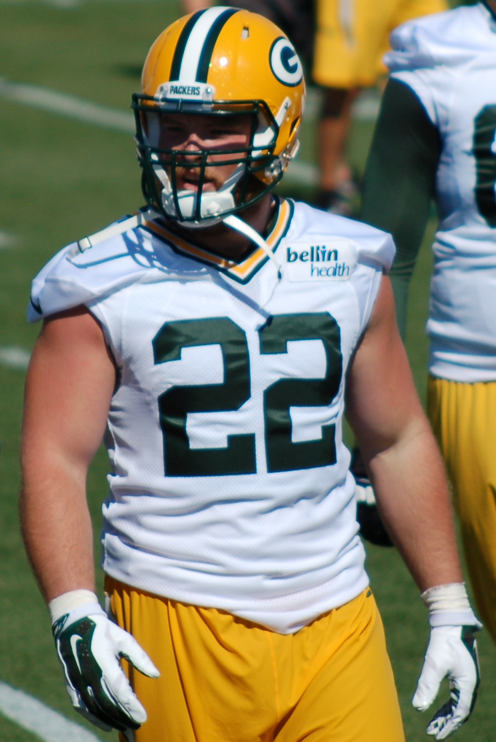 2015 Packers training camp